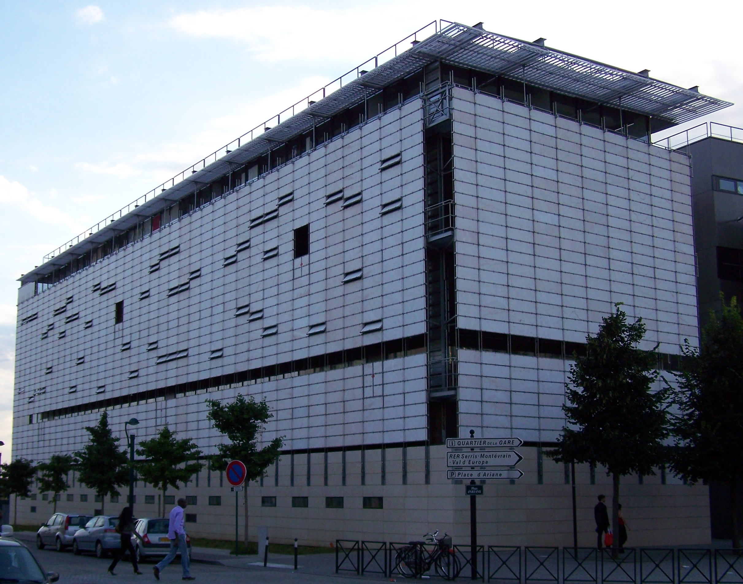 Serris France Mediatheque